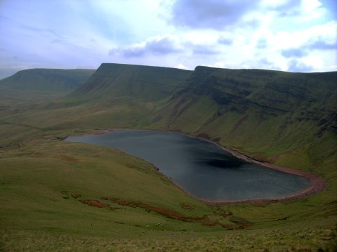 Llyn y Fan Fach and the Bannau Sir Gaer. The lake in its hollow as seen from near the clifftop (in SN7921).